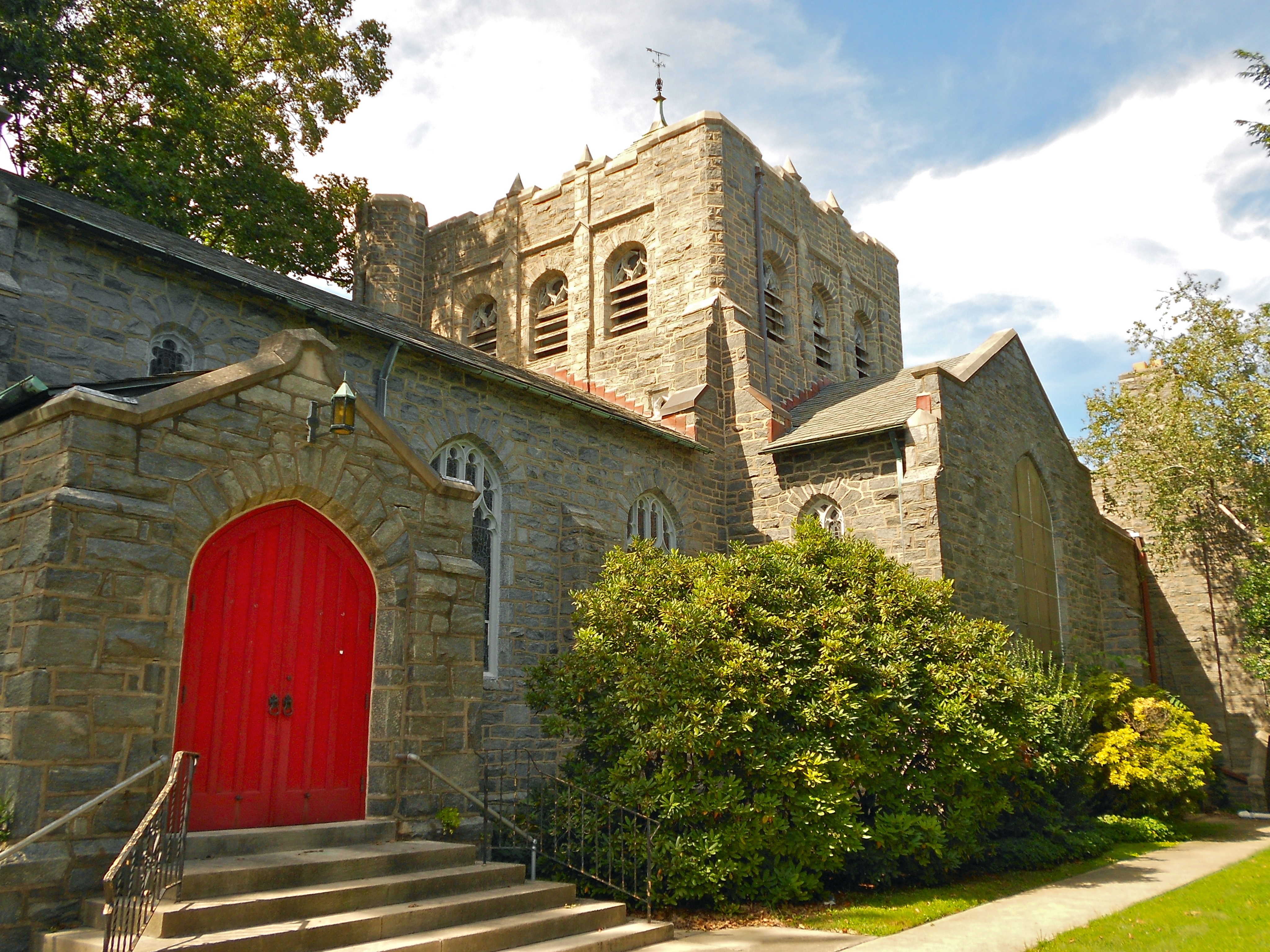 Lansdowne Park Historic District